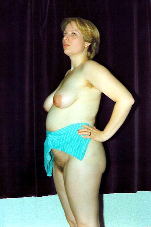 Model Vivi Berens photographed standing in her apartment on Amager.